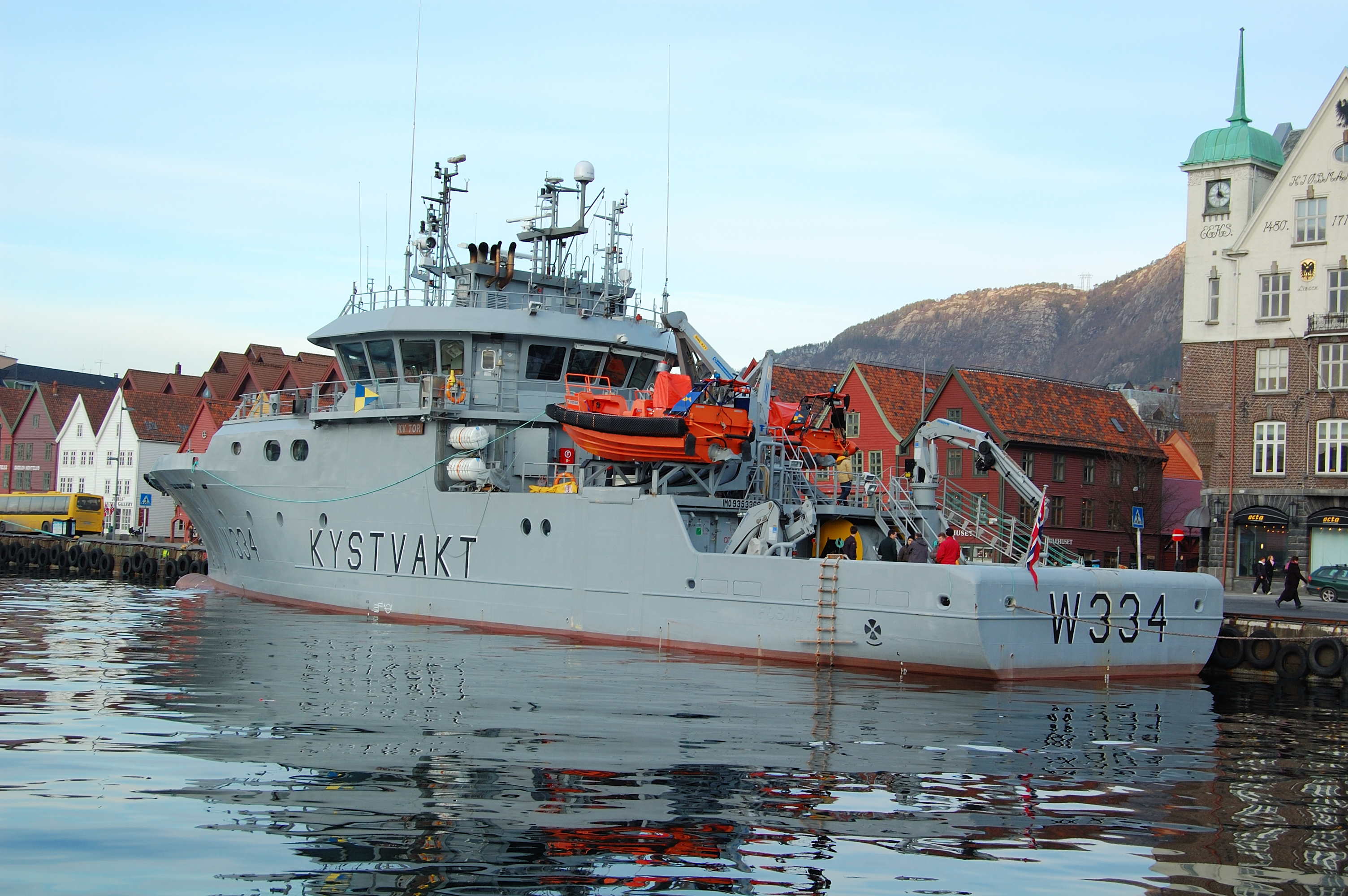 Norwegian Coastguard ship KV Tor, a Norne-class coastguard, in Bergen, Norway.